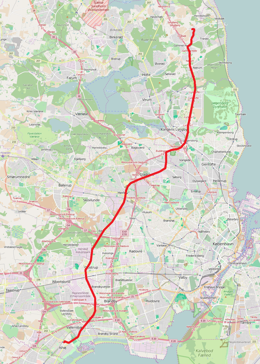 Map of Copenhagen bus line 303S between Trørød and Ishøj Station as of september 1995, when the line was closed. This map may be incomplete, and may contain errors. Don't rely solely on it for navigation.